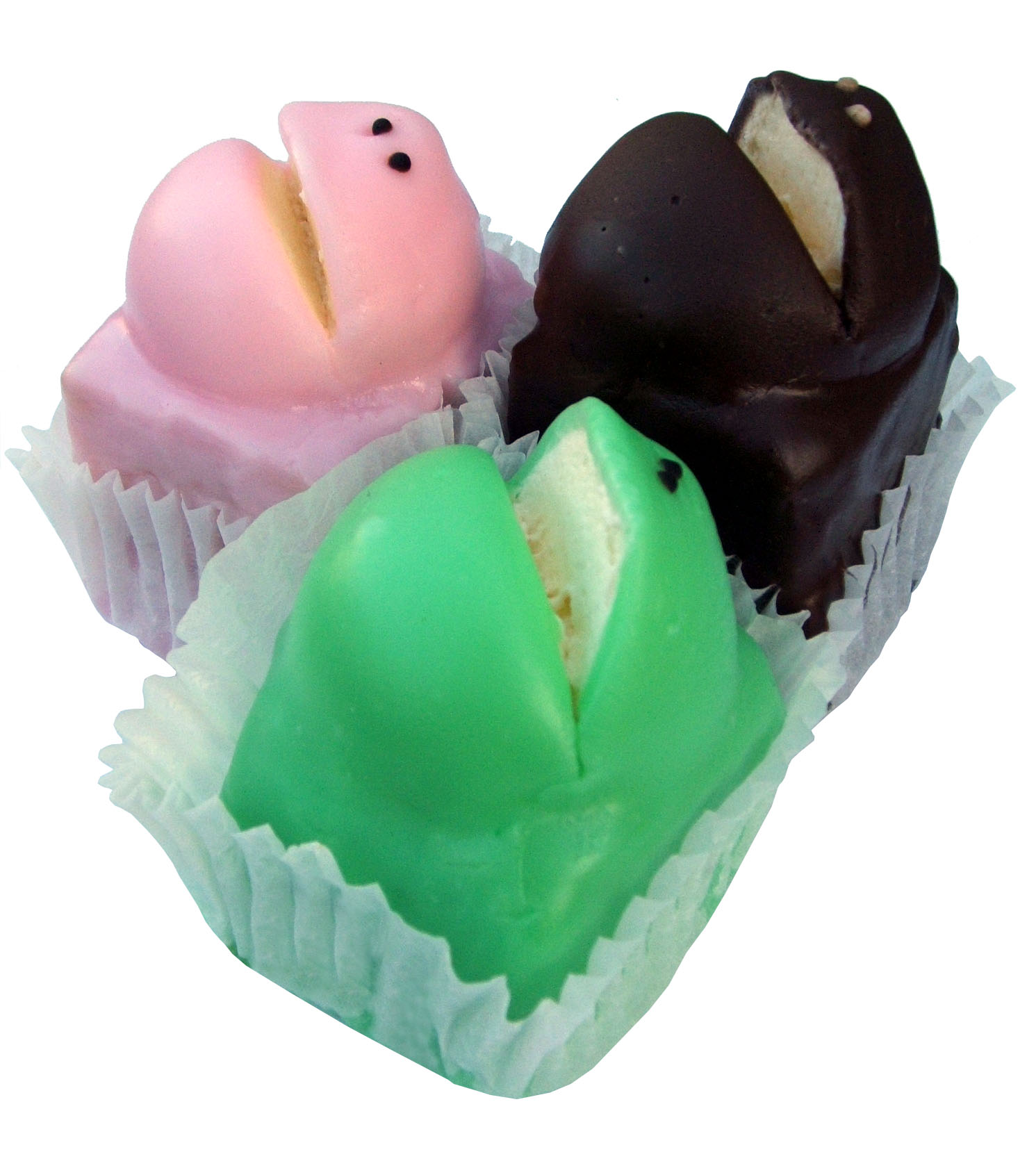 A set of three frog cakes from Balfours